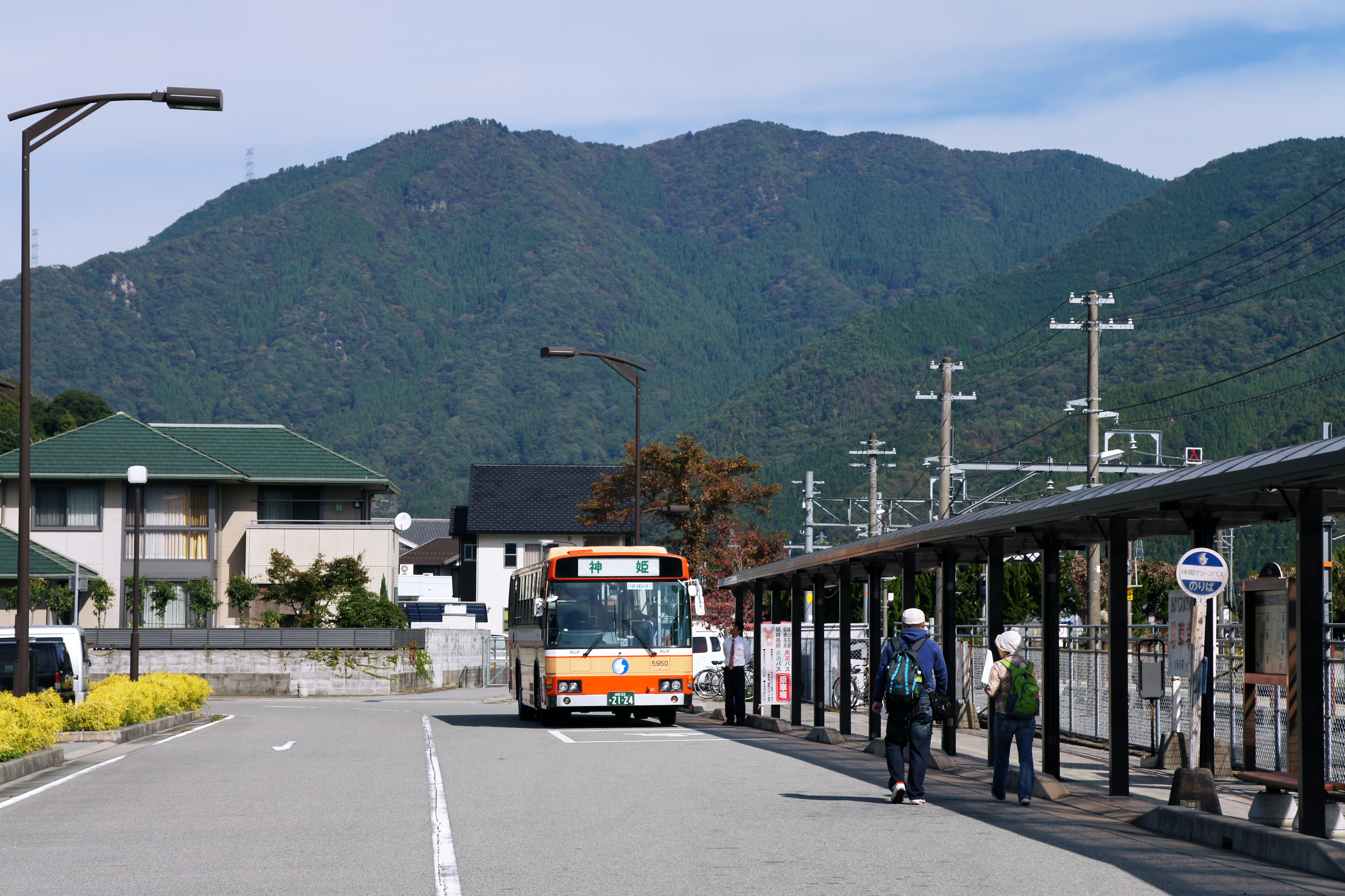 Teramae Station in Kamikawa, Hyogo prefecture, Japan.